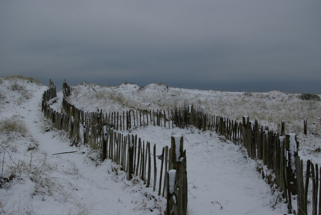 Stevenston Beach Nature Reserve Fenced footpath through the sand dunes